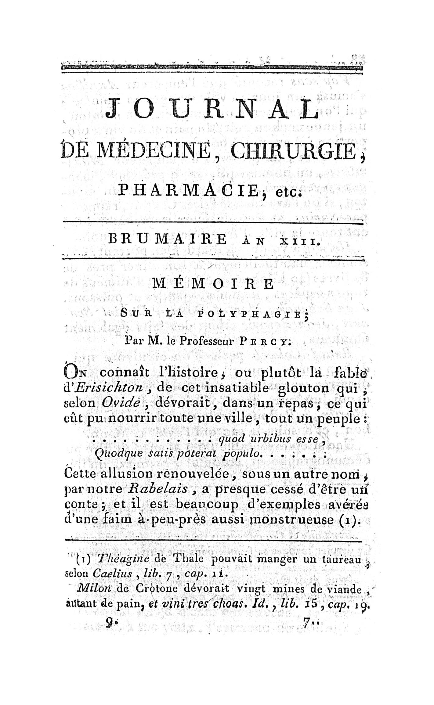 Book about hyperphagia, written by Baron Percy in Brumaire An XIII (ca. November 1804).